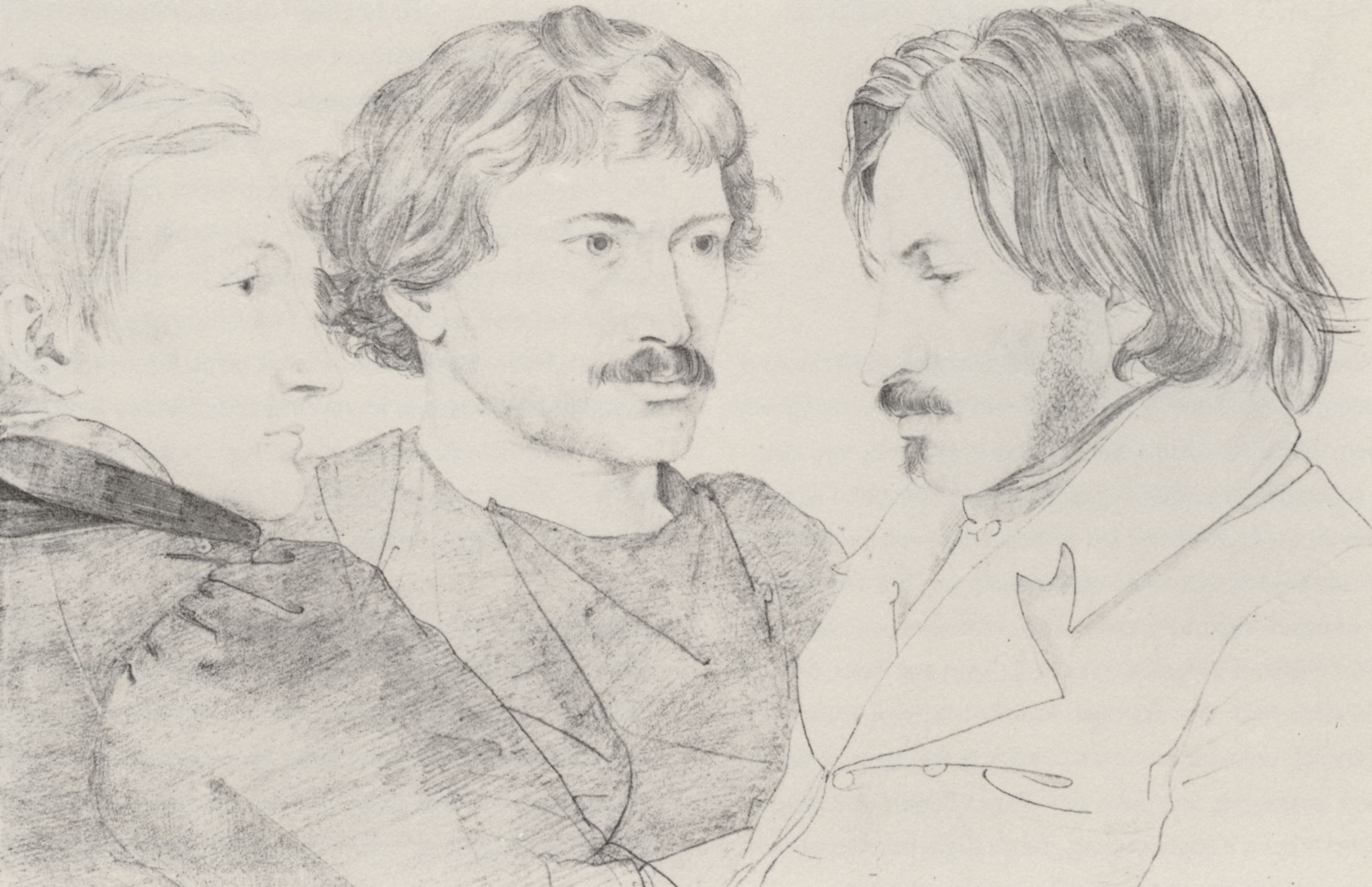 Fohr, Carl Philipp: Porträts von Otto Friedrich Ignatius (Links), August Georg Wilhelm Pezold (Mitte) und Gustav Adolf Hippius (Rechts)